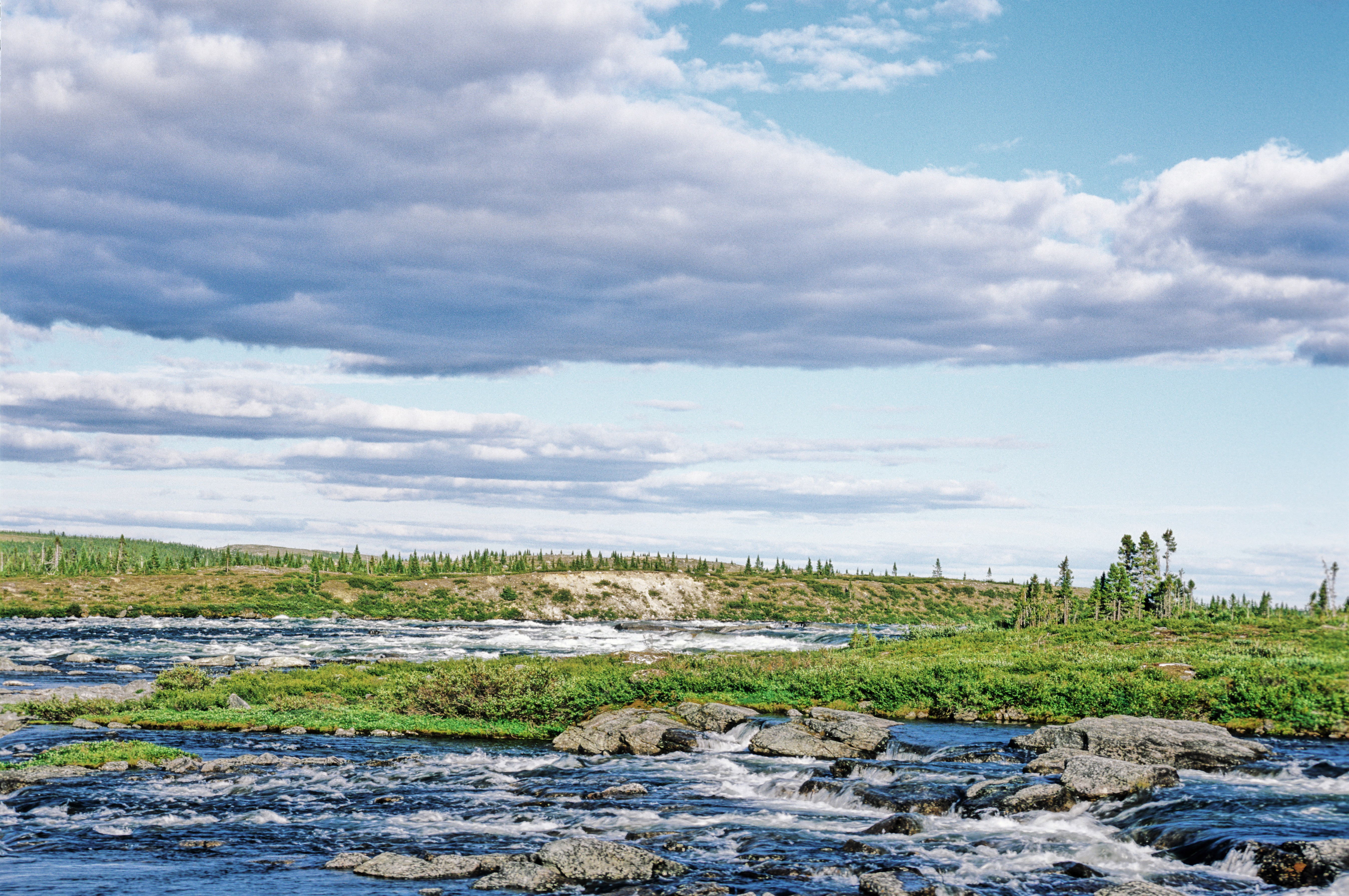 Rapids on the Nastapoka River